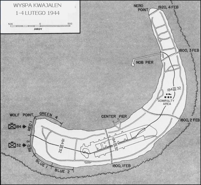 Map of Landings on the Kwajalein Island in WW2